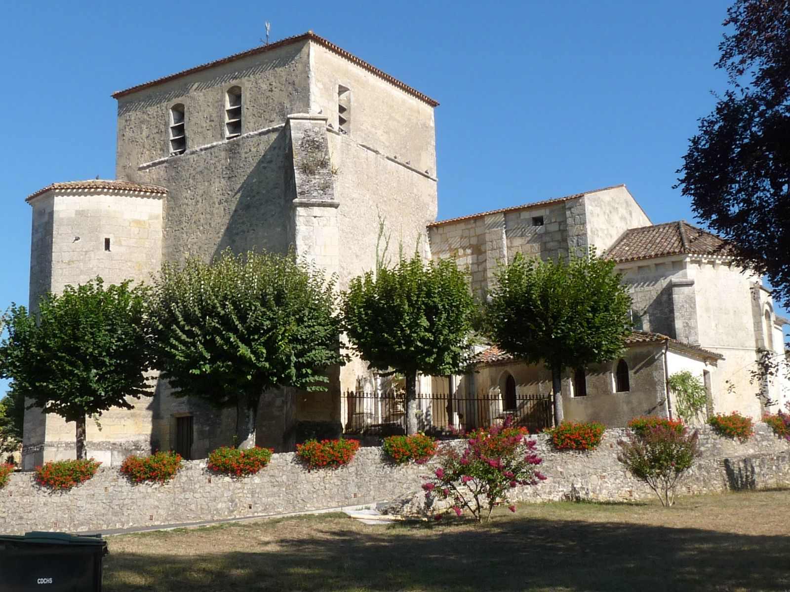 church of Montguyon, Charente-Maritime, SW France